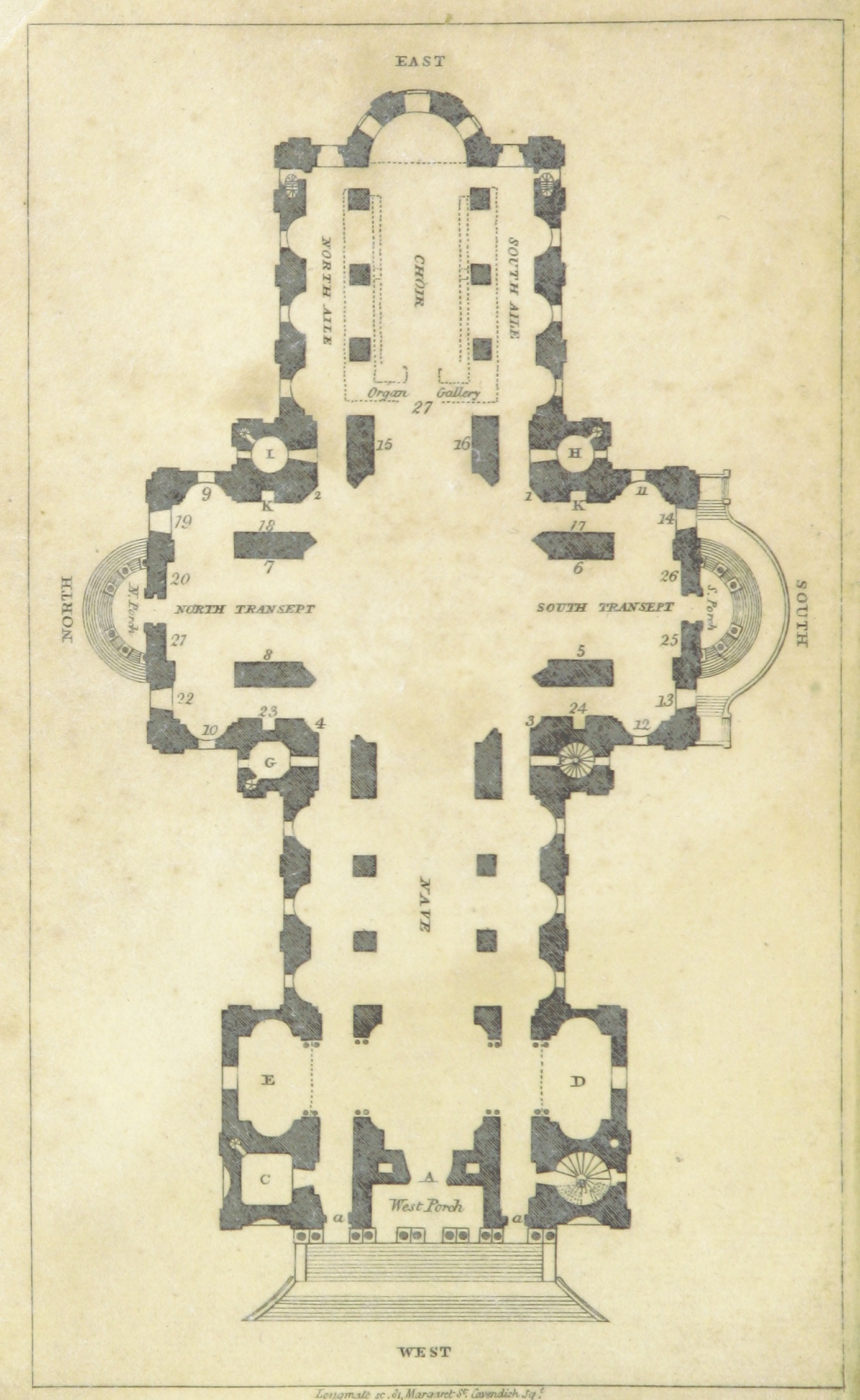 View this map on the BL Georeferencer service. Image taken from: Title: "A Popular Description of St. Paul's Cathedral; including a brief history of the Old and New Cathedral. [By M. Hackett.] ... Eighteenth edition" Shelfmark: "British Library HMNTS 10349.d.1." Page: 14 Place of Publishing: London Date of Publishing: 1829 Issuance: monographic Identifier: 002795679 Explore: Find this item in the British Library catalogue, 'Explore'. Open the page in the British Library's itemViewer (page image 14) Download the PDF for this book Image found on book scan 14 (NB not a pagenumber)Download the OCR-derived text for this volume: (plain text) or (json) Click here to see all the illustrations in this book and click here to browse other illustrations published in books in the same year. Order a higher quality version from here.